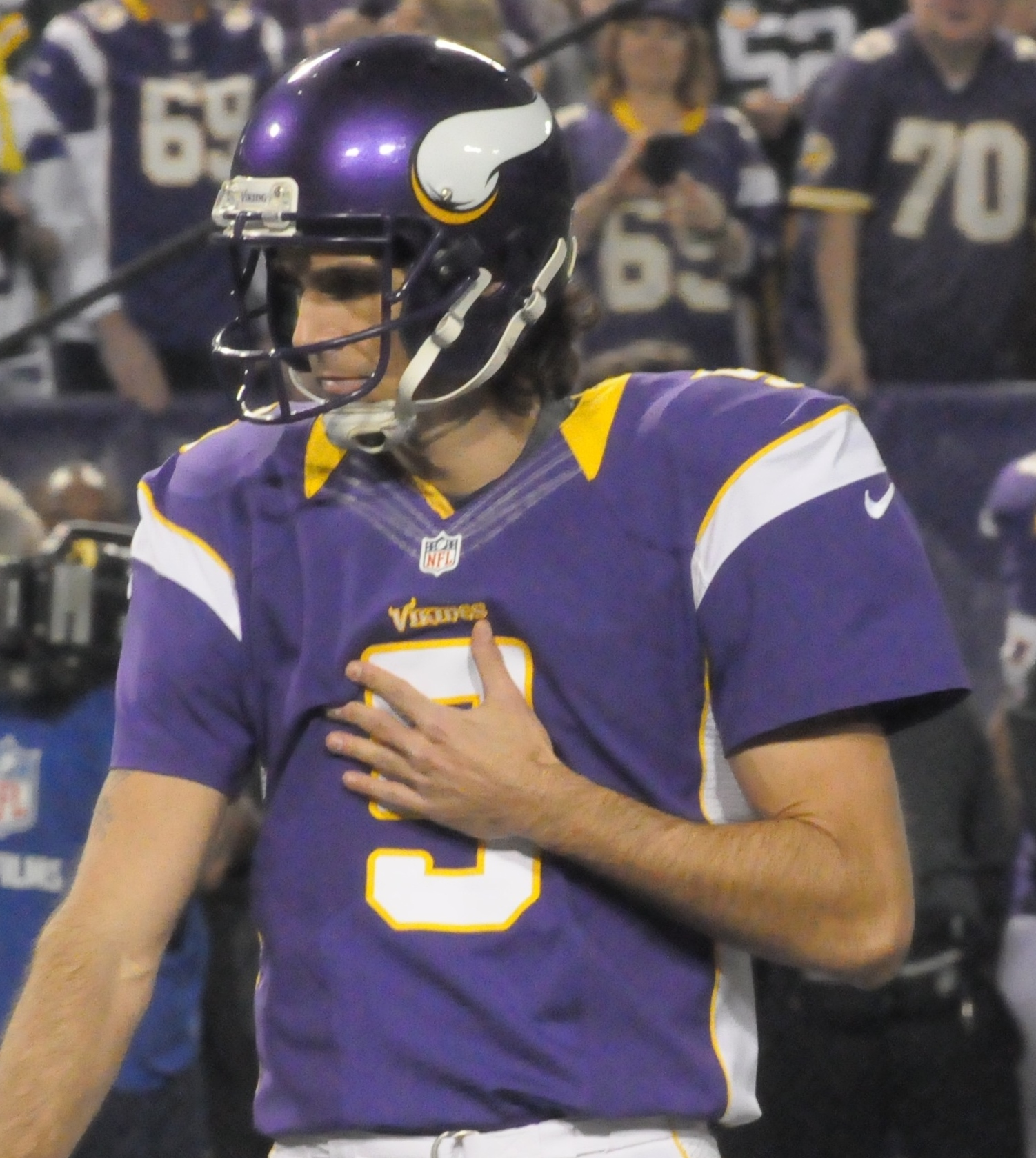 Minnesota Vikings punter Chris Kluwe and placekicker Blair Walsh during the Dec. 30, 2012 game against the Green Bay Packers